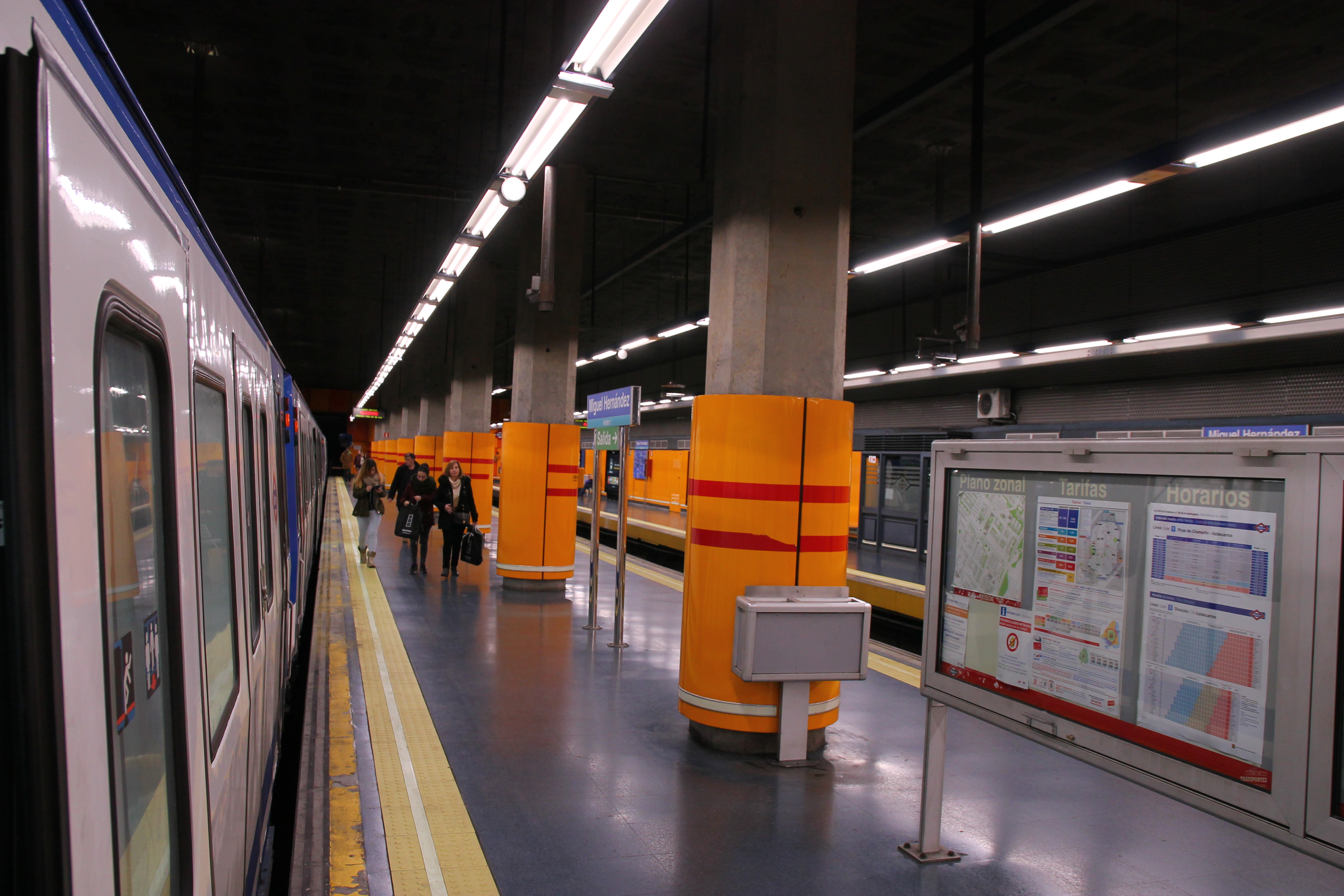 Miguel Hernández station. Madrid Metro.